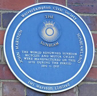 Blue Plaque award on the side of Sunbeamland, the former Sunbeam motor works in Wolverhampton